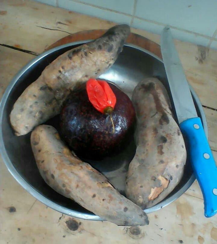 This is an image with the theme "Play" from: Rwanda